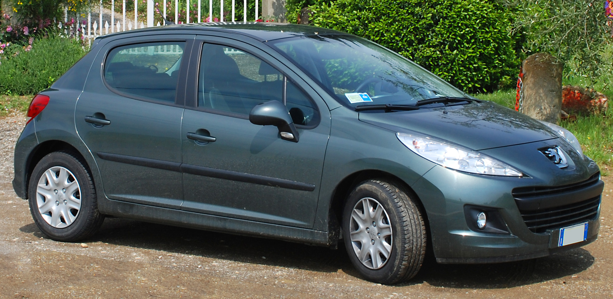 Peugeot 207